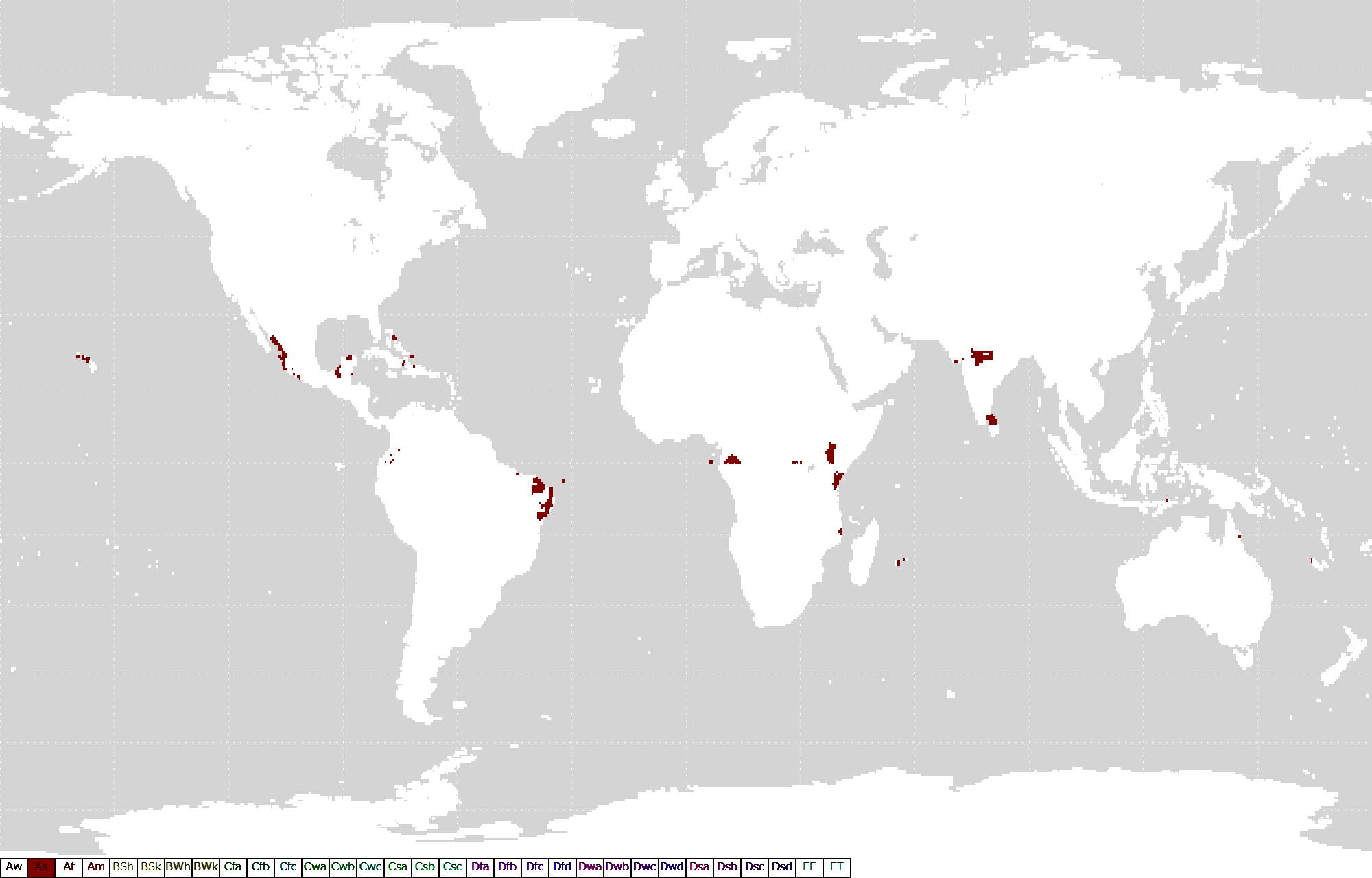 Area of Class As climate